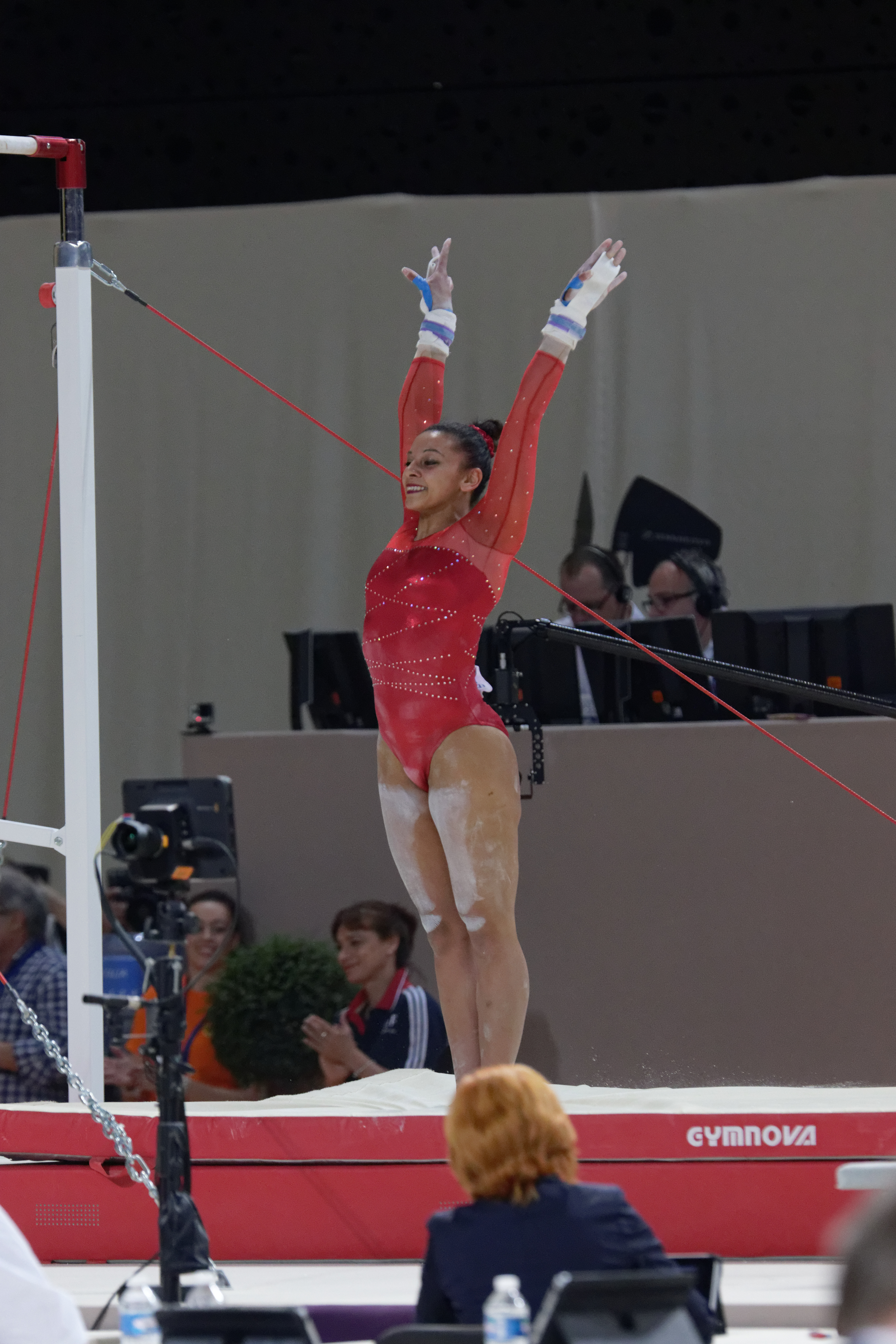 2015 European Artistic Gymnastics Championships. Uneven bars.